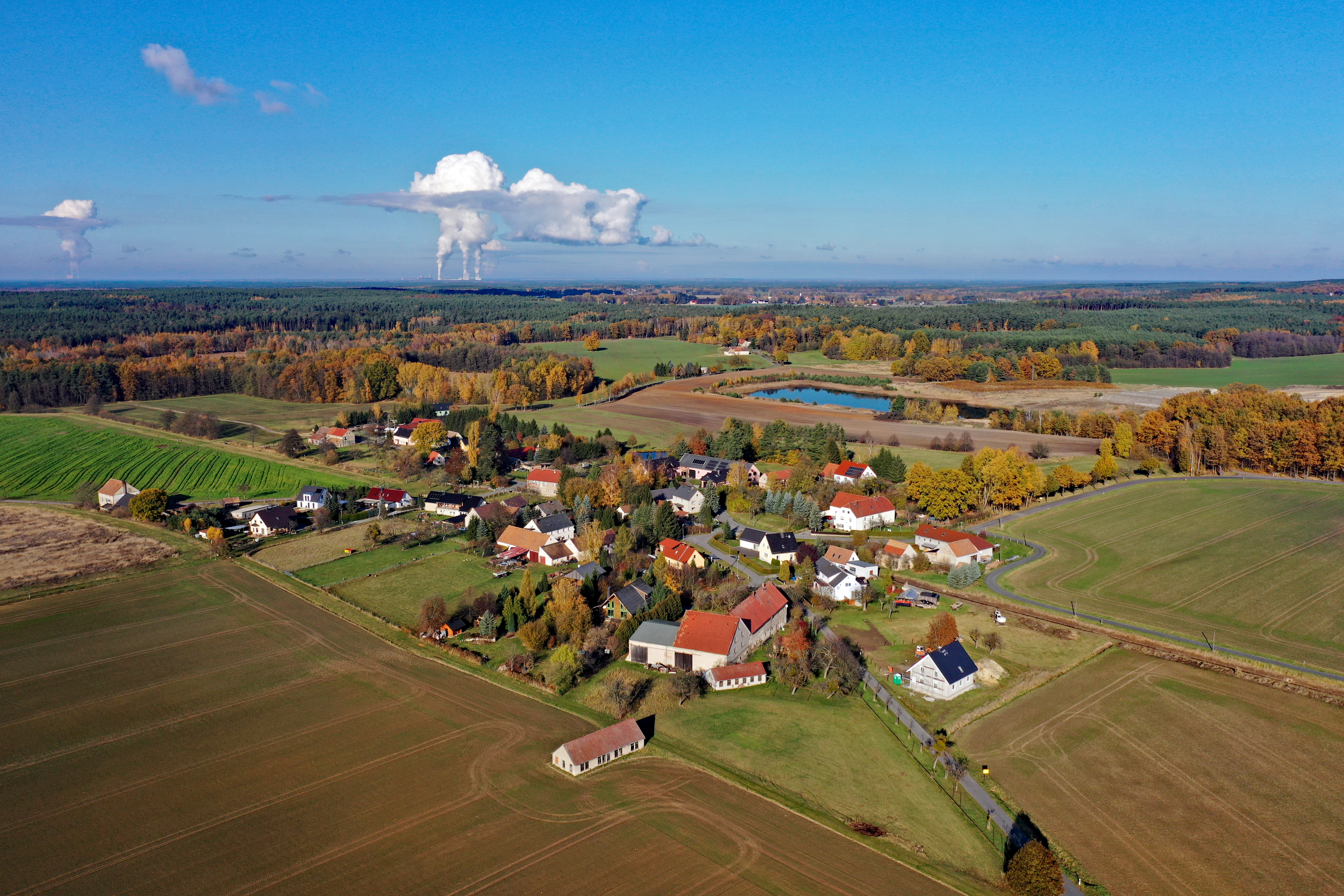 Großsaubernitz (Hohendubrau, Landkreis Görlitz, Saxony, Germany) Hornjoserbsce: Powětrowy wobraz Zubornicy Dieses Foto wurde mit einem Quadcopter innerhalb der RMZ des Flugplatzes EDAB aufgenommen. Der Flugleiter wurde am Aufnahmetag telephonisch über Ort und Zeit informiert und hat zugestimmt. Der Flug erfolgte auf Grundlage der Allgemeinverfügung der Landesdirektion Sachsen zur Erteilung der Betriebserlaubnis für unbemannte Luftfahrtsysteme und Flugmodelle gemäß § 21a LuftVO und Zulassung von Ausnahmen von Betriebsverboten gemäß § 21b LuftVO für den Freistaat Sachsen.